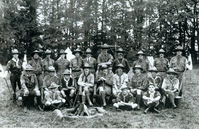 This shows the first Wood Badge training in Gilwell Park in September 1919. It shows Robert Baden-Powell, one of the trainers, in the centre. Also included in the picture are Deputy Chief Scout Percy Everett, Gilwell Camp Chief Francis Gidney and his deputy F.S. Morgan, Managing Secretary of The Scout Association Major A.G. Wade, Scout Commissioner for Gilwell P.B. Nevill, and others. There were eighteen participants: Hines, Robson, Berlin, Butler, Bunt, Davies, Wilkinson, Todd, Fay, Kent, Firth, Hammond, Eiffe, Nevill, Phillips, Earle, Baker, Lang. Pine Tree Scouting archives EuroAmerican Tours Scout Pack 3390 21st Century Wood Badge, Camp GT Wood Badge Lincoln BSA woodbadge Copyright of this picture is undeterminate. It has been used for numerous publications. It is considered relevant to provide this picture to the Wood Badge to illustrate its origins. Clearly the picture is unique and unreplaceable.